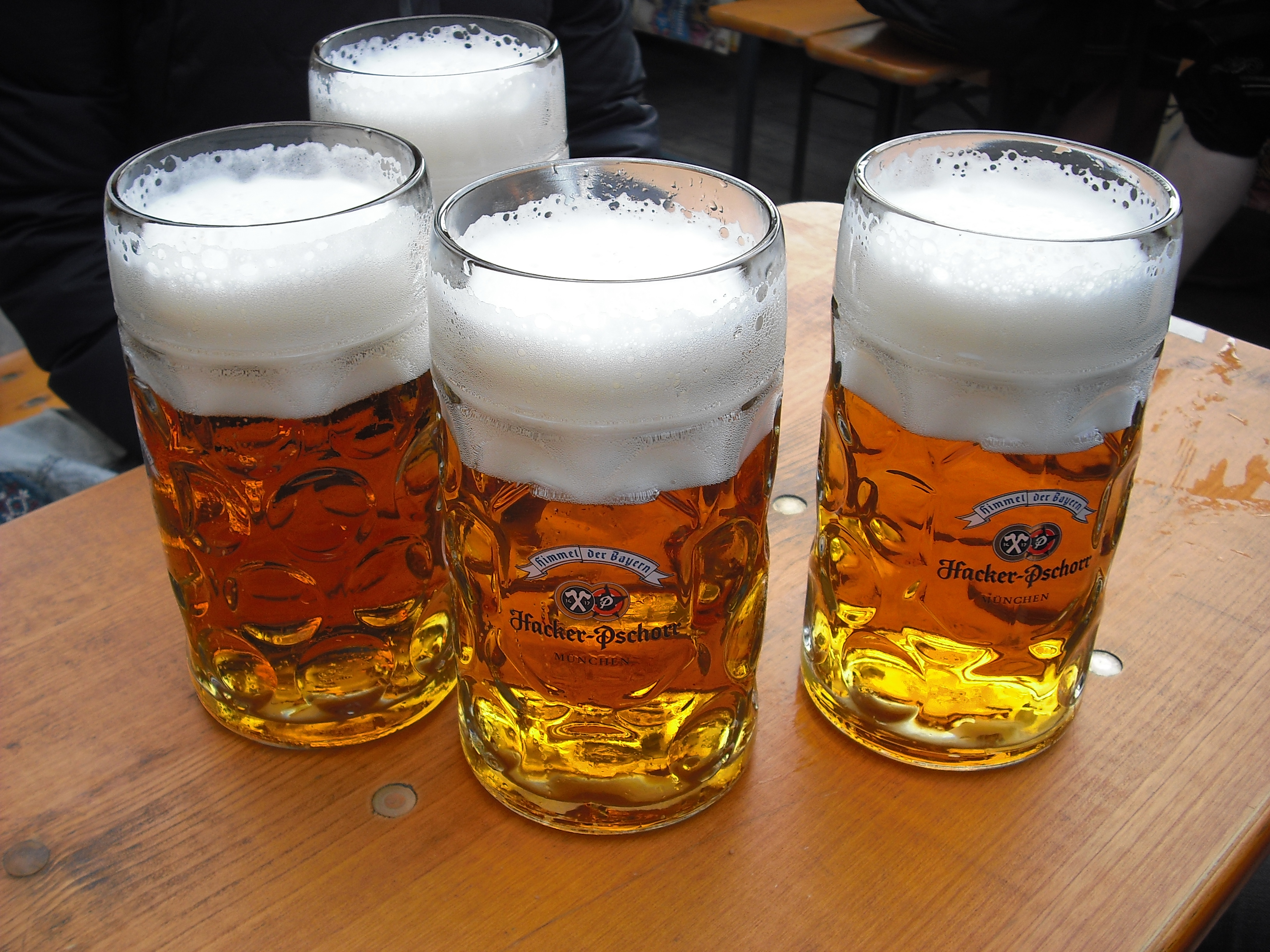 Four mugs of beer at Oktoberfest 2008.